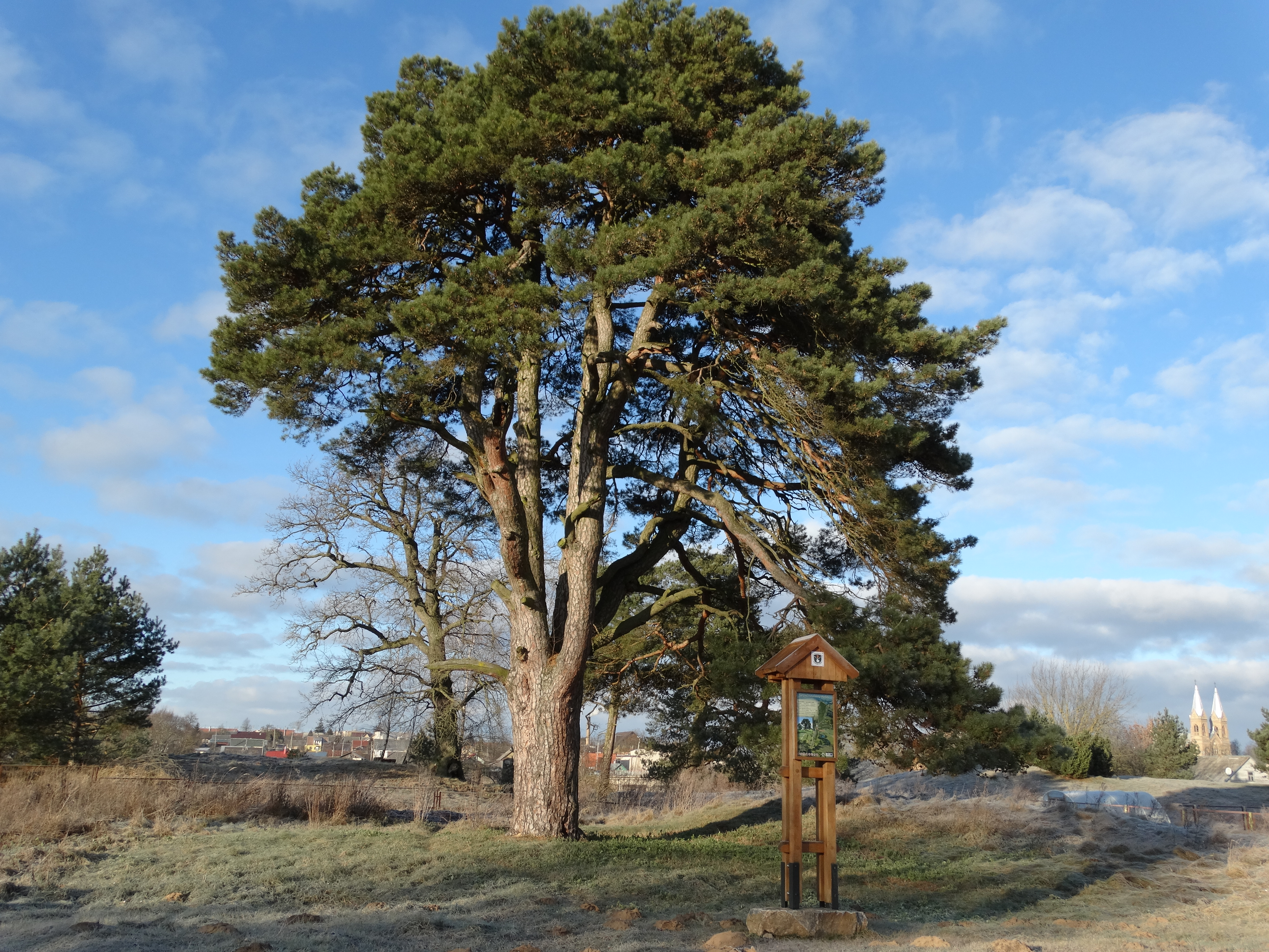 Švenčiuliškiai pine tree, by Krekenava, Panevėžys District, Lithuania